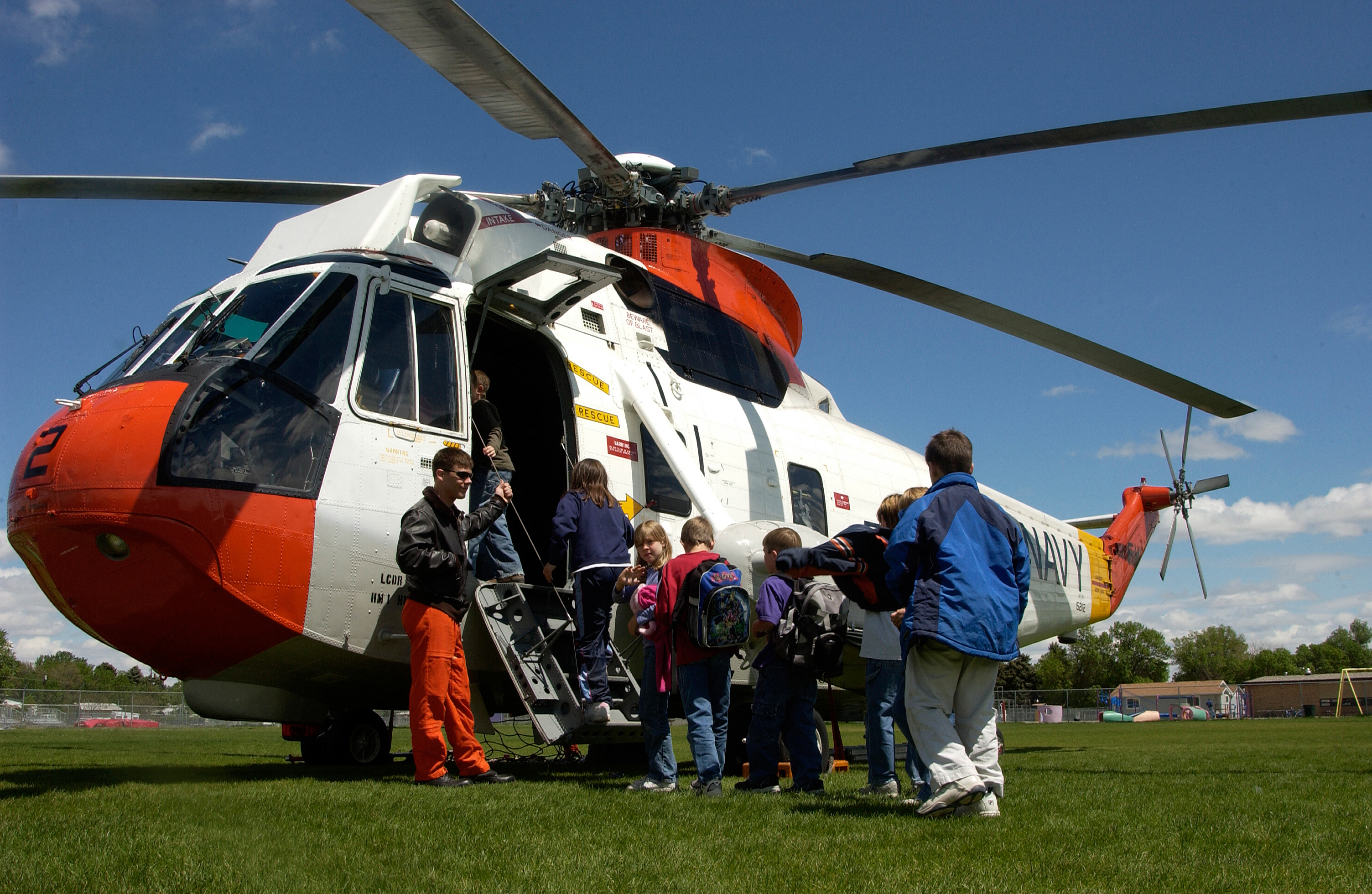 Laurel, Mont. (May 13, 2004) - Avionics Technician 2nd Class Ryder Buttrey assigned to the Naval Air Station Whidbey Island, Wash. Search and Rescue (SAR) team, shows a third grade class from Graph Laurel Elementary School the features on a UH-3H SAR helicopter. The Whidbey Island based SAR crew and other branches of the service participated in the semi annual Aviation and Technology week in Laurel, Montana. Over 12,000 elementary and high school students traveled from various parts of Montana and Wyoming to see numerous static displays and flight demonstrations. U.S. Navy photo by Photographer's Mate 2nd Class Michael B. Watkins (RELEASED)